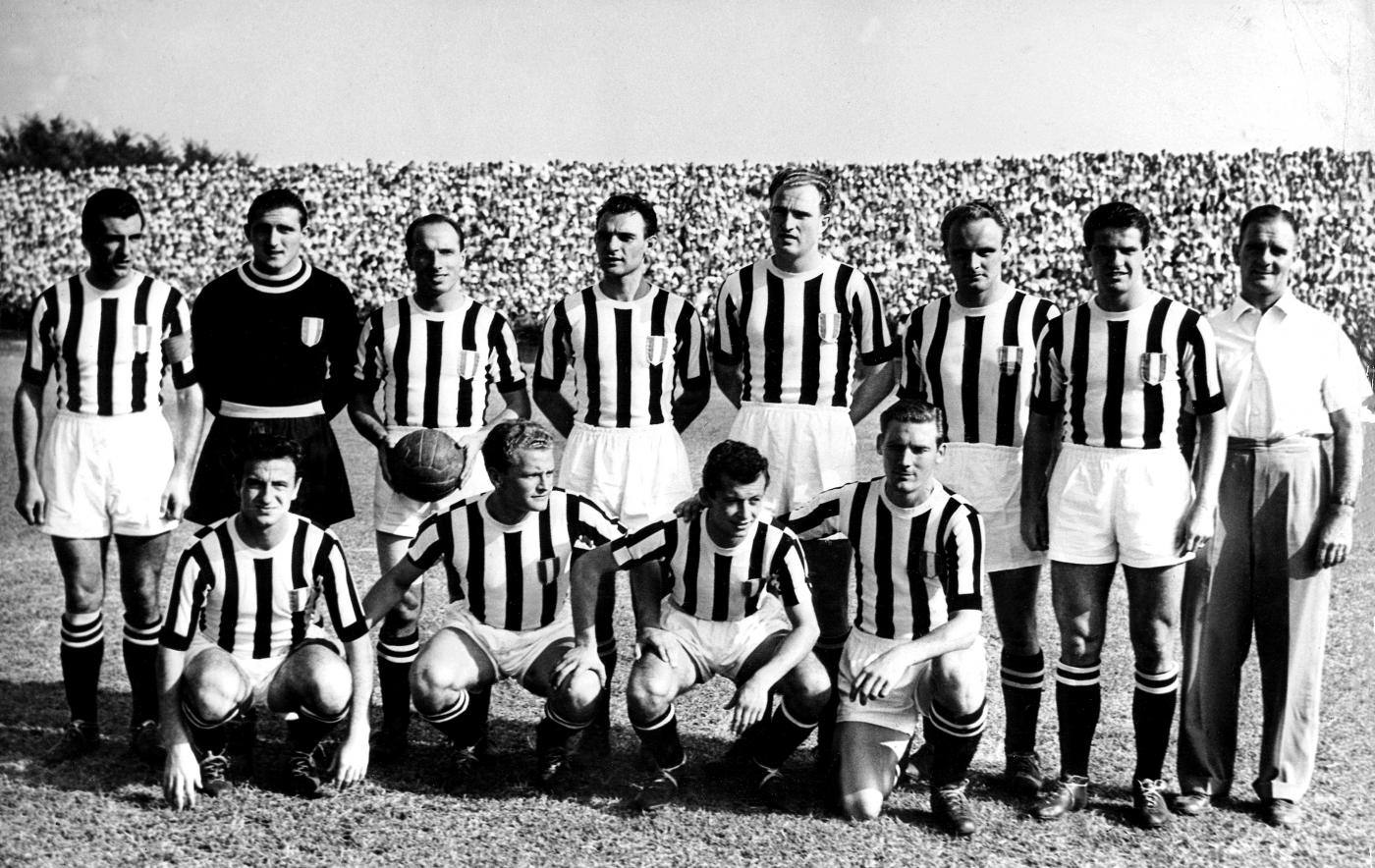 A line-up of Juventus FC in the 1950–51 season. From left to right, standing: C. Parola (captain), G. Viola, A. Bertuccelli, G. Mari, J. Hansen, K. A. Hansen, R. Bizzotto, J. Carver (coach); crouched: S. Manente, G. Boniperti, E. Muccinelli, K. A. Præst.